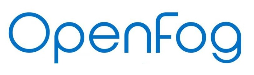 Logo of the OpenFog Consortium